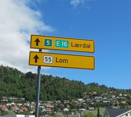 Road sign in Sogn